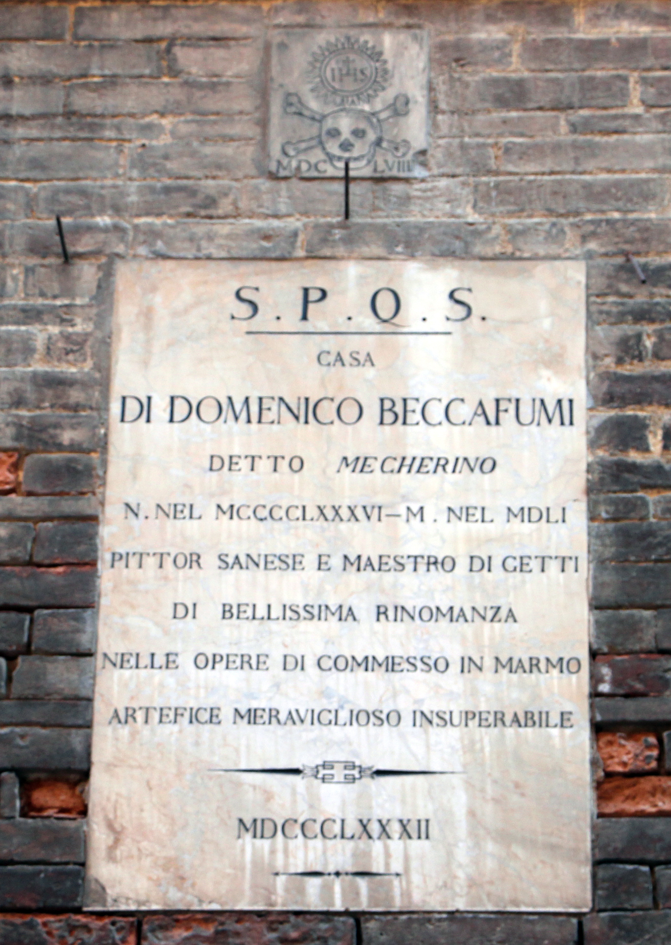 Castelvecchio (Siena)